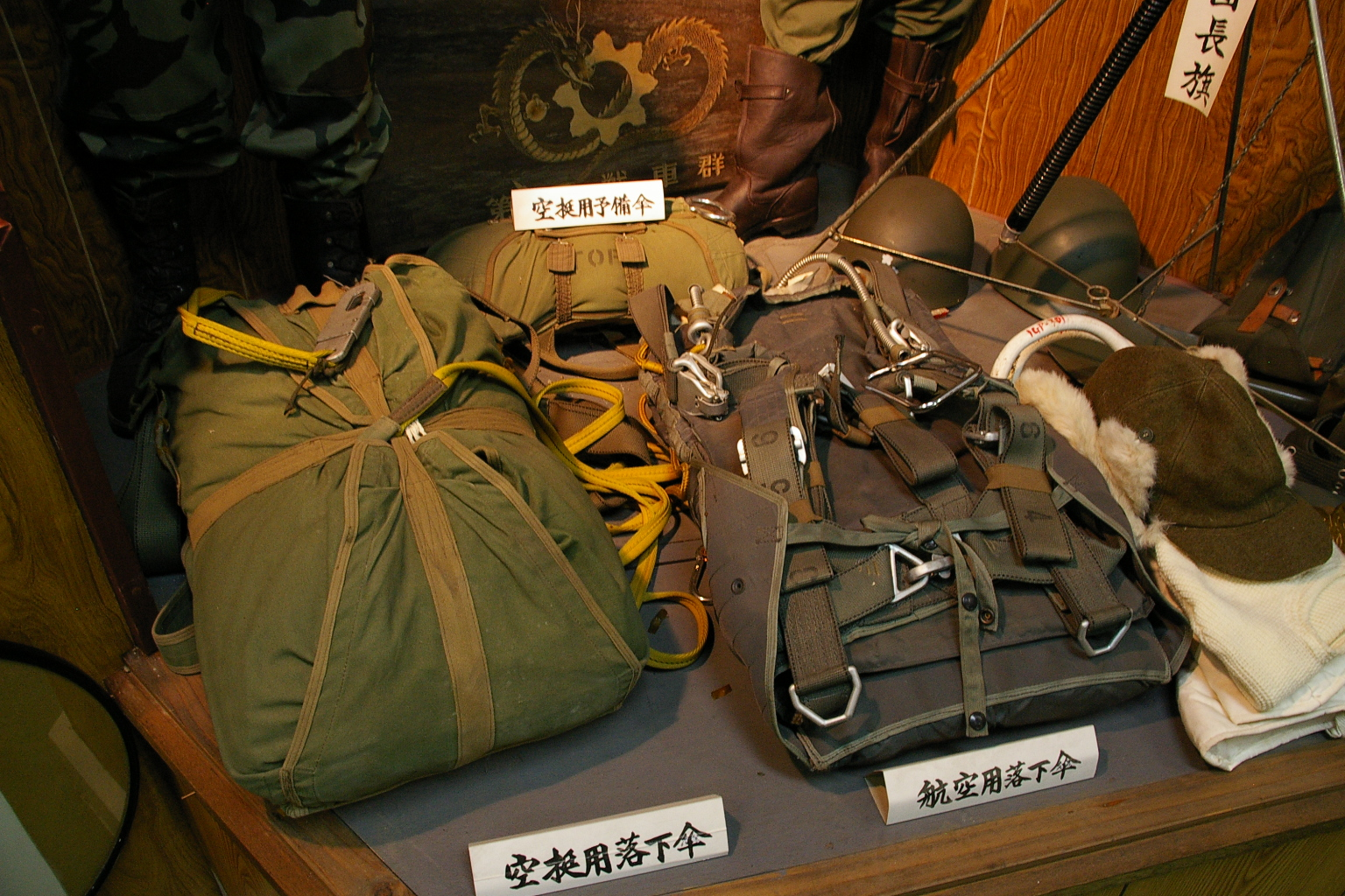 JGSDF Type60 parachute.